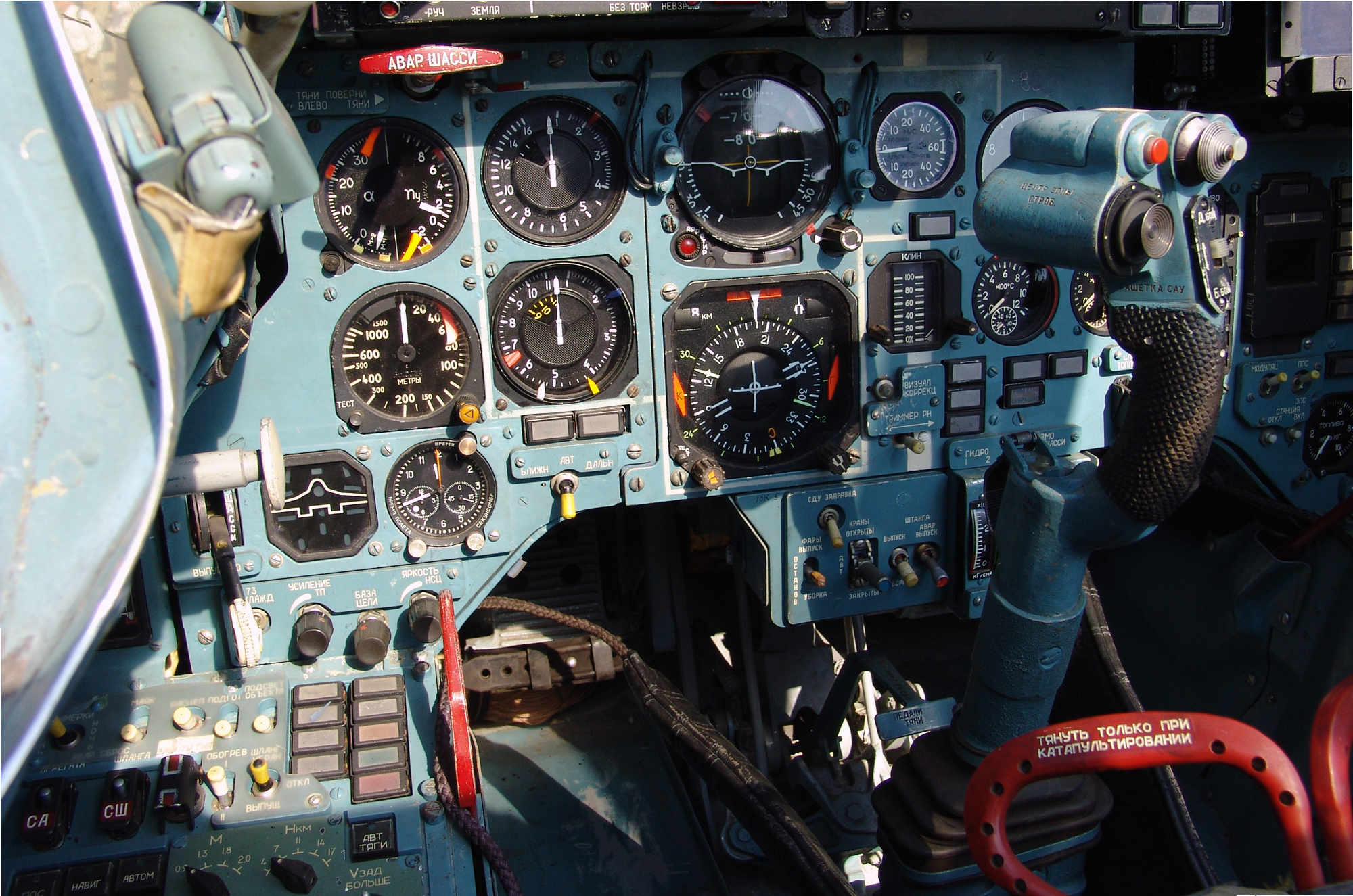 Cockpit of Sukhoi Su-33 carrier-based fighter